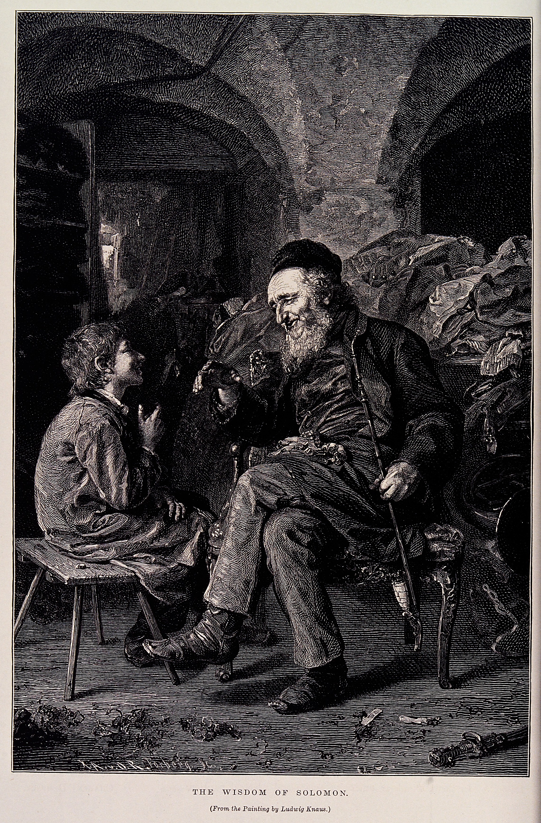 A young boy listens to the wise words of an old man. Wood engraving by [?] [?] Forberg after Ludwig Knaus. Iconographic Collections